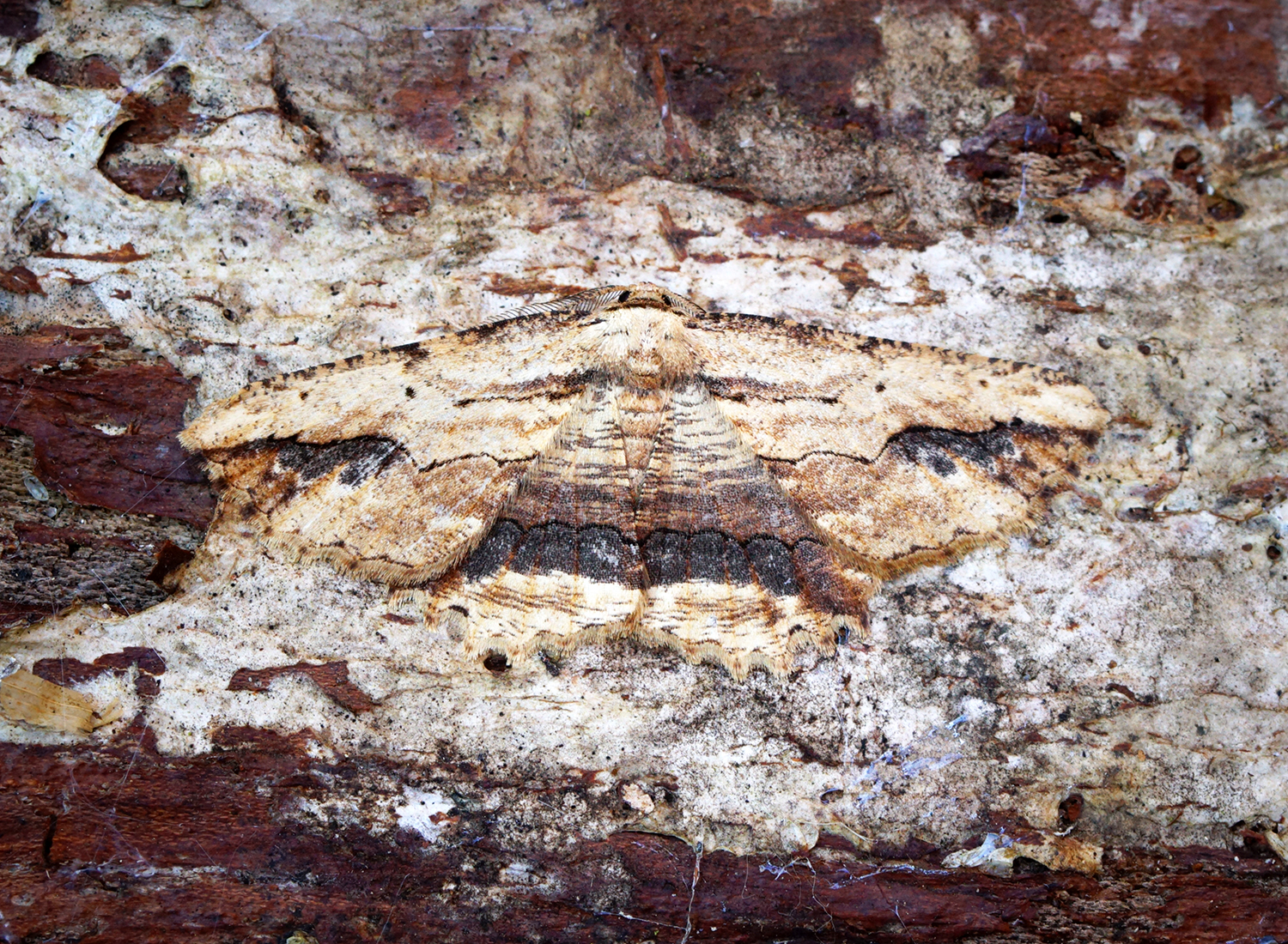 Picking up...but still clearing skies Yesterday was a scorching day with highs of 22 degrees, minimal breeze and plenty of sunshine which did turn hazy by the afternoon, in fact it was quite cloudy at 4pm. At work I saw plenty of Holly Blues and Brimstones and one Argyrotaenia ljungiana was a year first sighting. By 8.30pm the trap was lit up and the sky was clear again, I can't remember the last cloudy night we had! 16 moths of 9 species was reasonable for my garden this time of year as we cross over from Orthosia's to move varied families of moths, namely the Prominents and Geometers. New for year were Garden Carpet, Waved Umber and Mompha subbisttrigella. The species list stands at 35 for the year. Today has been even warmer at just a shade under 24 degrees here, in fact as I write it is still 23 degrees and promises to be a cloudy but possibly stormy night. Nevertheless the trap is going out again as I have so much catching up to do it is quite absurd! Tomorrow night will see me on my third field trip of the year. Good luck all over the next few nights. Catch Report - 06/05/16 - Back Garden - Stevenage - 1x 125w MV Robinson Trap Macro Moths 1x Garden Carpet [NFY] 1x Waved Umber [NFY] 2x Early Grey 2x Hebrew Character 1x Streamer 5x Double-striped Pug 1x Angle Shades Micro Moths 1x Mompha subbistrigella [NFY] 2x Emmelina monodactyla